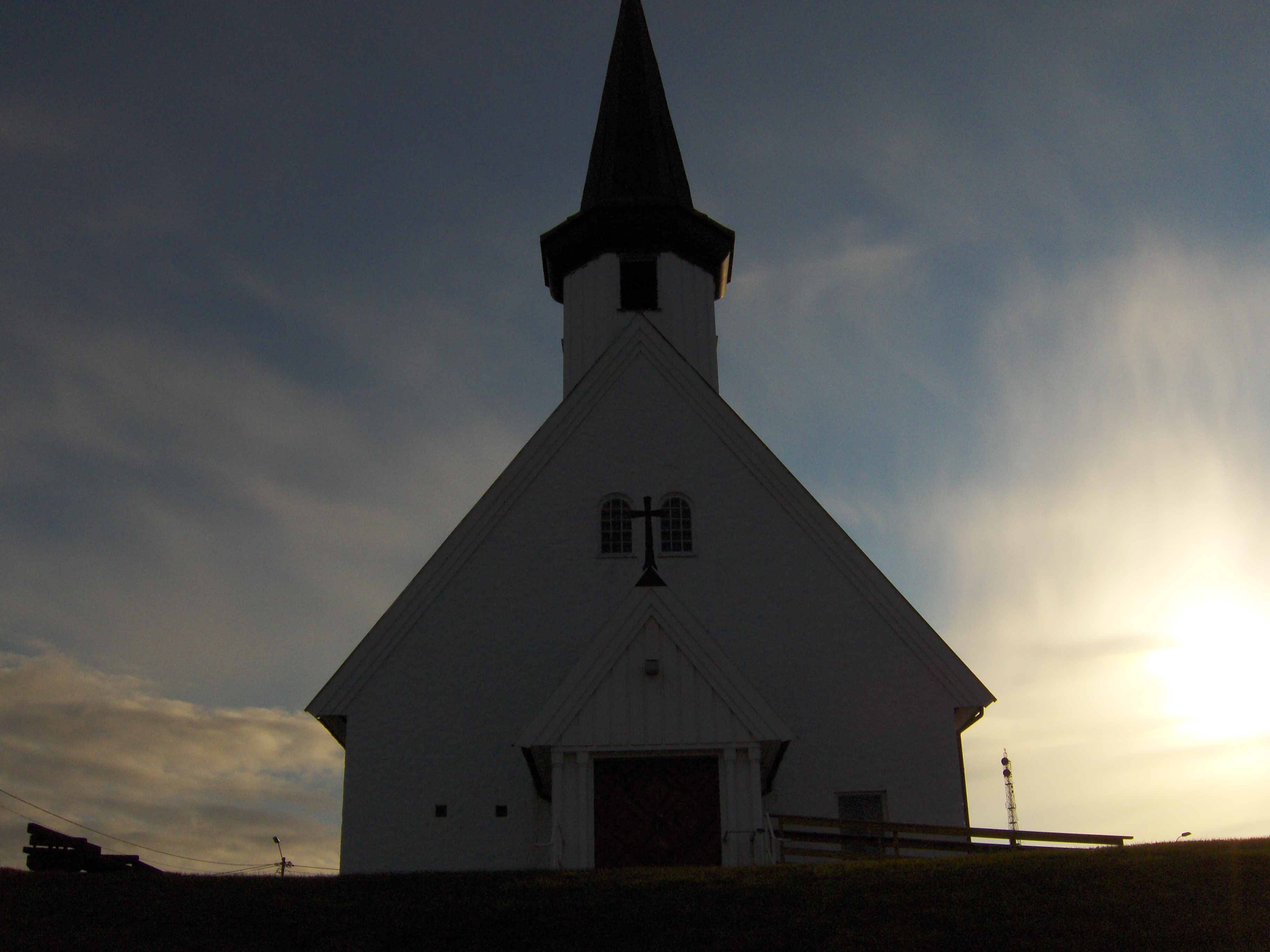 The church can room 300 persons and is built in 1960.